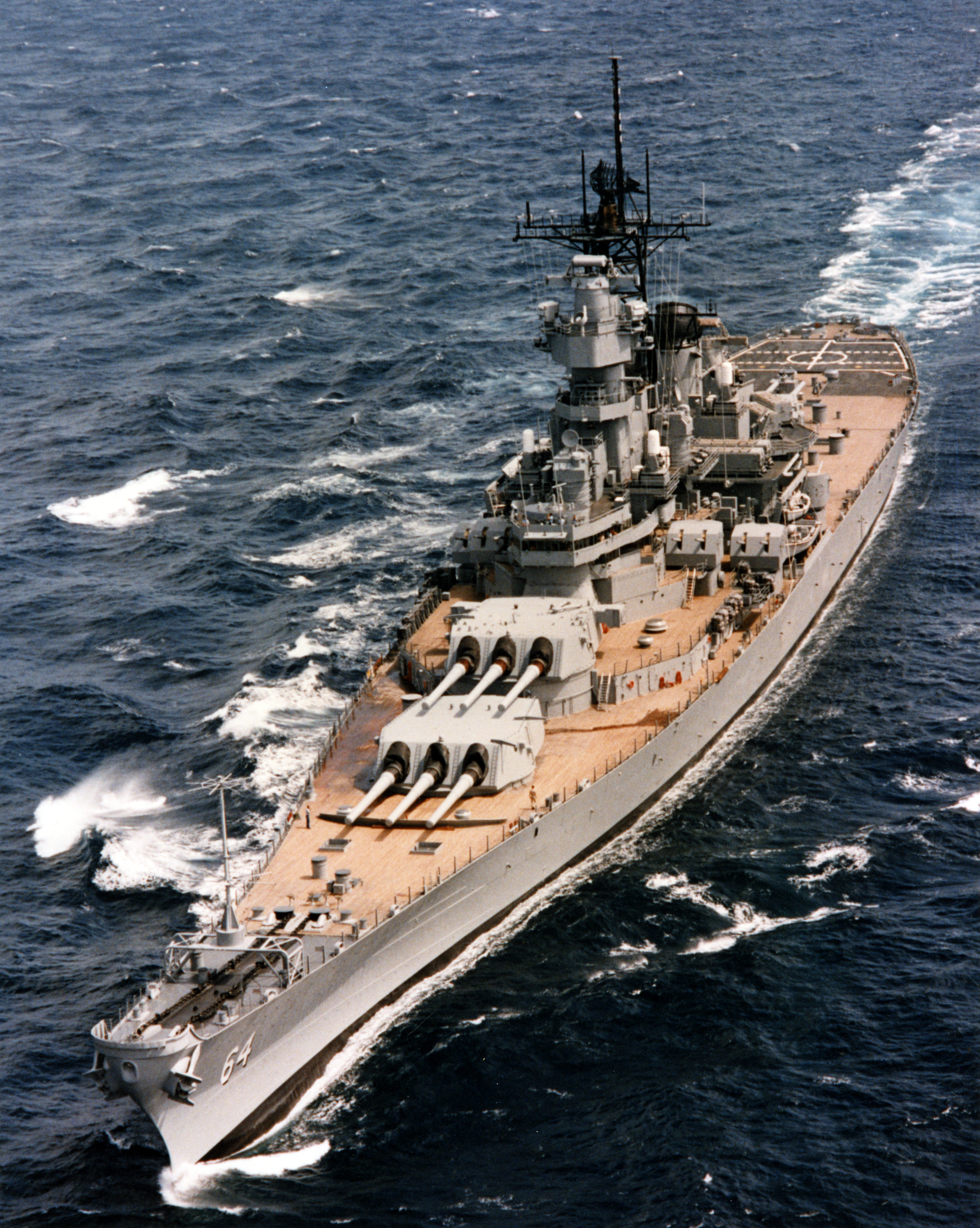 The U.S. Navy battleship USS Wisconsin (BB-64) underway at sea, circa 1988-91.